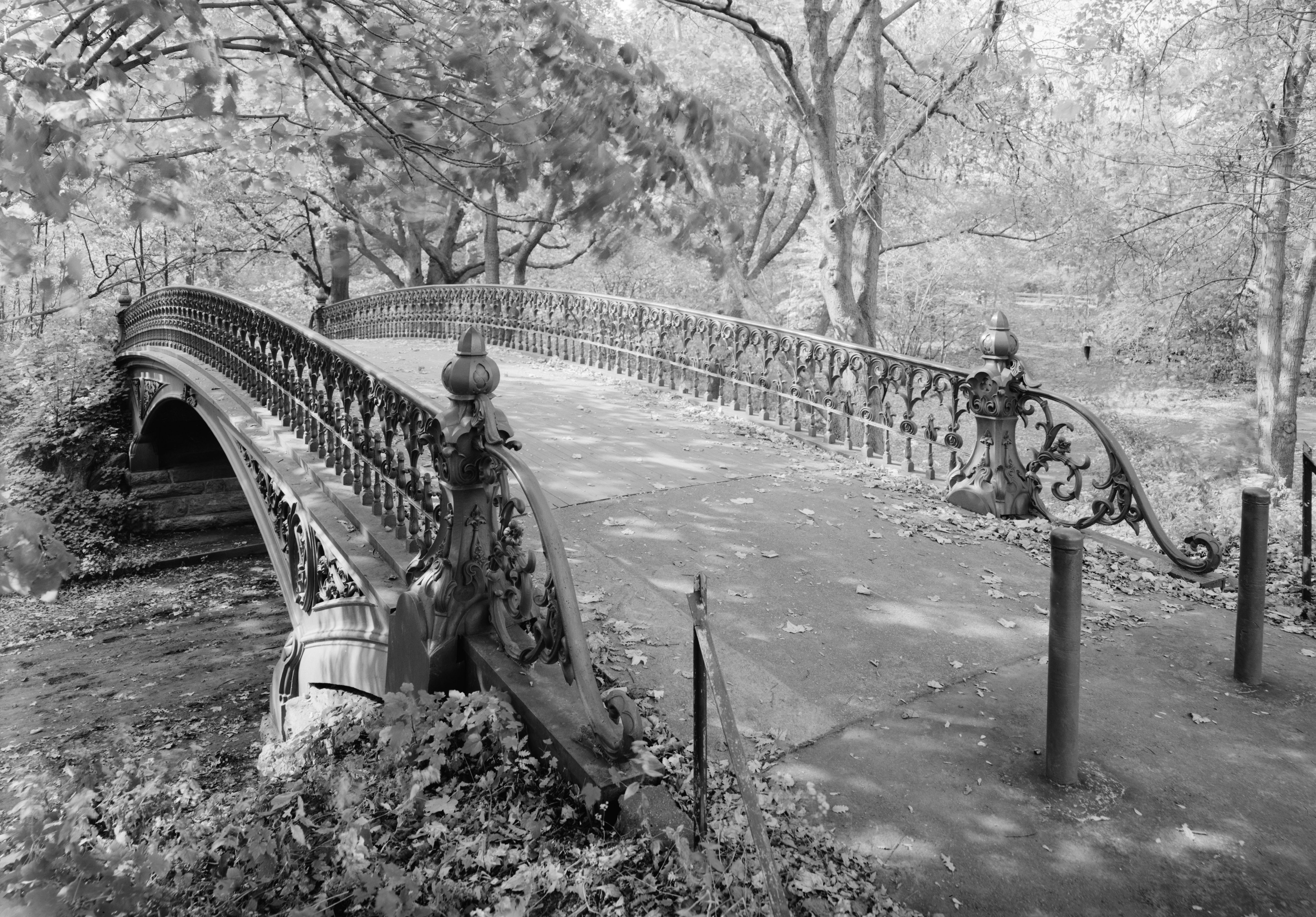 Three-quarter view from deck level looking southwest. Bridge No. 27, Central Park, Southwest of Reservoir